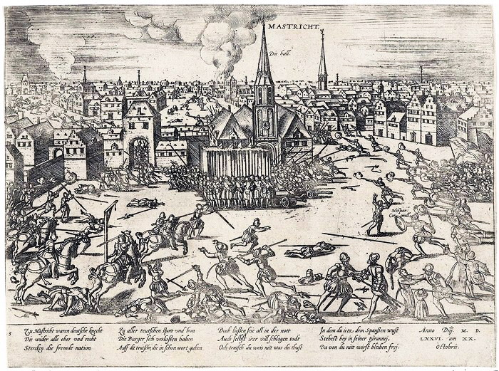 Maastricht, the Netherlands, the Market Suare. Spanish troops raiding the city in 1576.